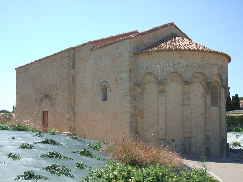 Villeneuve-de-la-Raho (département of Pyrénées-Orientales, Languedoc-Roussillon région, France) : Saint-Julien and Sainte-Basilisse chapel (XIIth century), former church of the village.